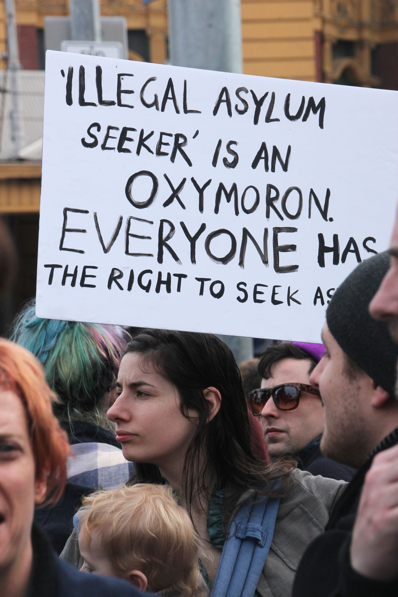 Melbourne Refugee and asylum seeker rights rally Saturday 27 July 2013, to protest both the Rudd Labor Government new proposal for assessment and resettlement of asylum seekers in Papua New Guinea, and the Liberal Party's hard line stand to use the military to turn back the boats. Both Labor and Liberal Policies are an abrogation of international codified rights to seek asylum in the UN Refugee convention after the Second World War. The protest in Melbourne gathered at the State Library, then marched down Swanston St to Bourke Street Mall, then on to Federation Square. Aboout 4000 to 5000 attended the rally including a significant cross section in ages, and political sophistication. Many people had home made signs. Folk singer/songwriter Les Thomas started the rally with some great songs. A number of speakers included Adam Bandt, Greens MP for Melbourne, Pamela Curr from the Asylum Seeker Resource Centre, Margarita Windisch, Socialist Alliance candidate for Wills, Leslie Cannold no 2 Victorian senate candidate after Julian Assange for the Wikileaks Party, and Dr Colin Long, President of the Victorian Trades Hall Council. Rallies were also held in Brisbane, Adelaide and Perth.